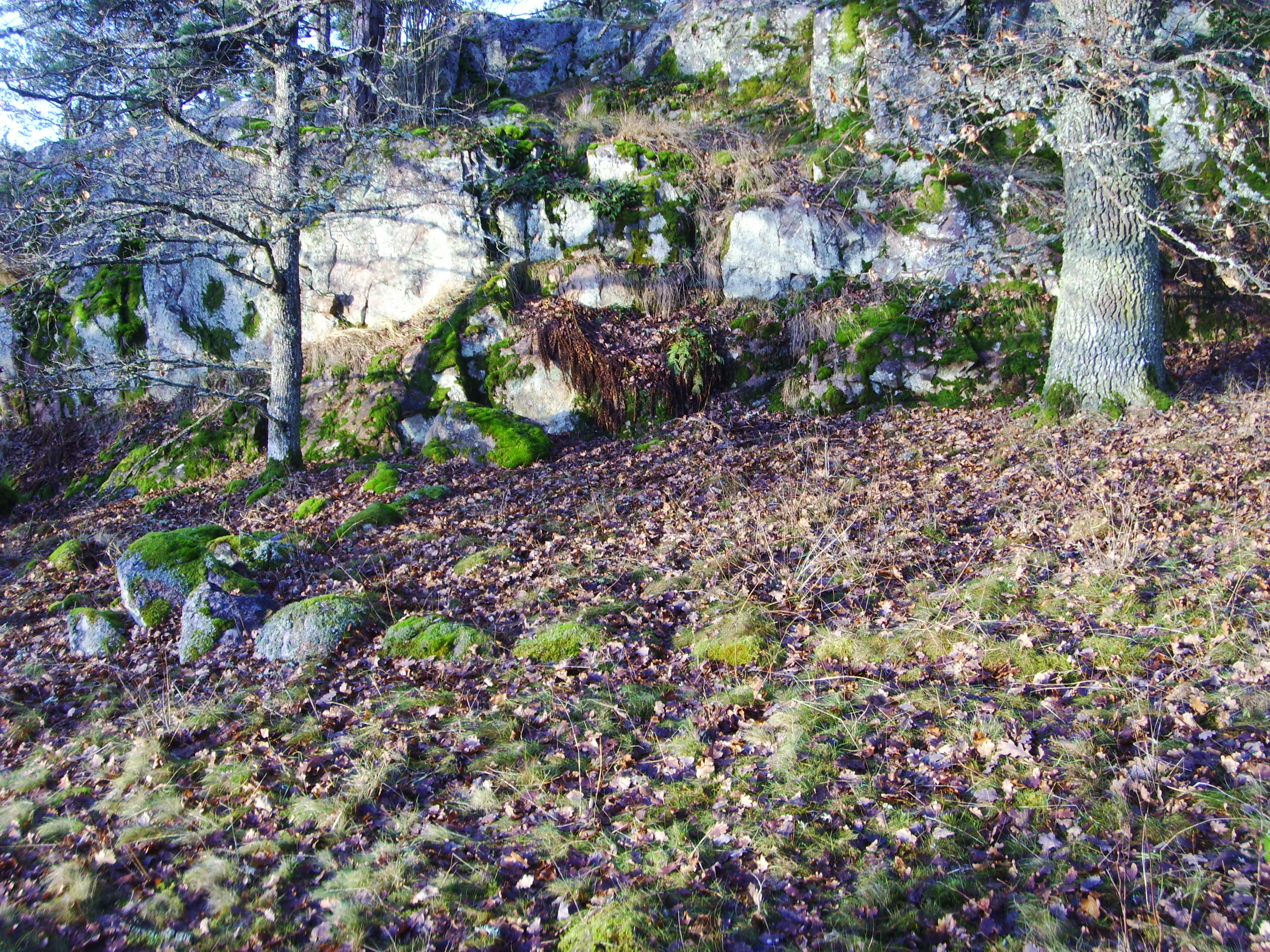 Tångstad hillfort (Borgberget – Kimstads socken, fornlämning 93) is one of the larger of Östergötlands hillforts and appear to have been permanently settled. The settlement is bound on west, north and east sides by an immense stone wall. The east are to be found the remainsof an outer wall in which was an entry to the fortification. To the south the hill slopes steeply down to lake Roxen. Archeological research in 1963 revealed the foundations of two houses. The house walls had been of wattle- and daub construction. Fragments of warpweights as well as potsherds chain mail and iron slag were found at the same time.